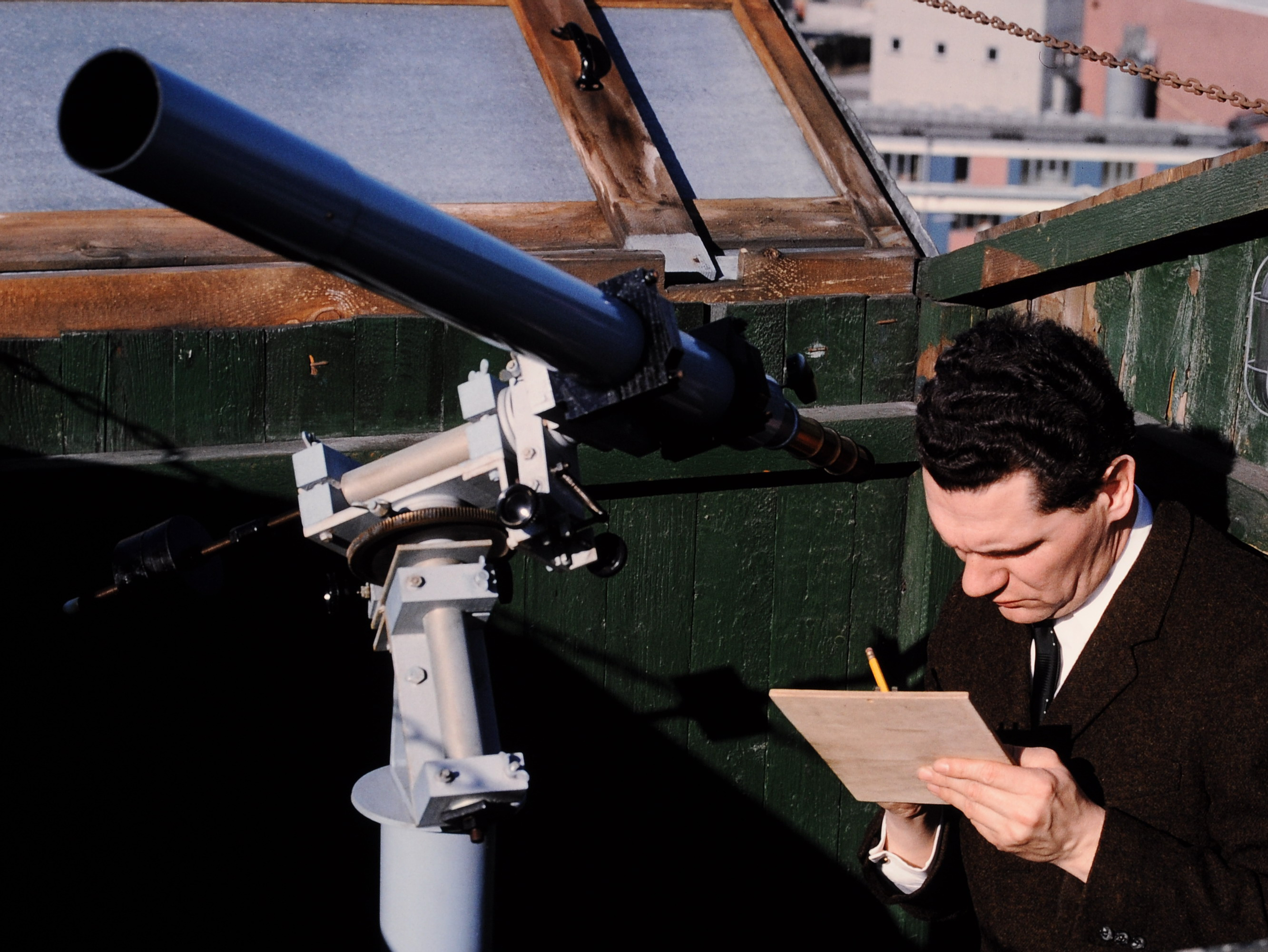 Hans Oberndorfer during sun observation